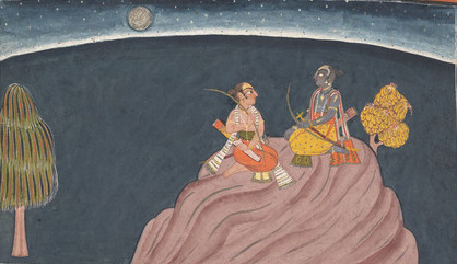 Rama and Lakshmana on Mount Pavarasana